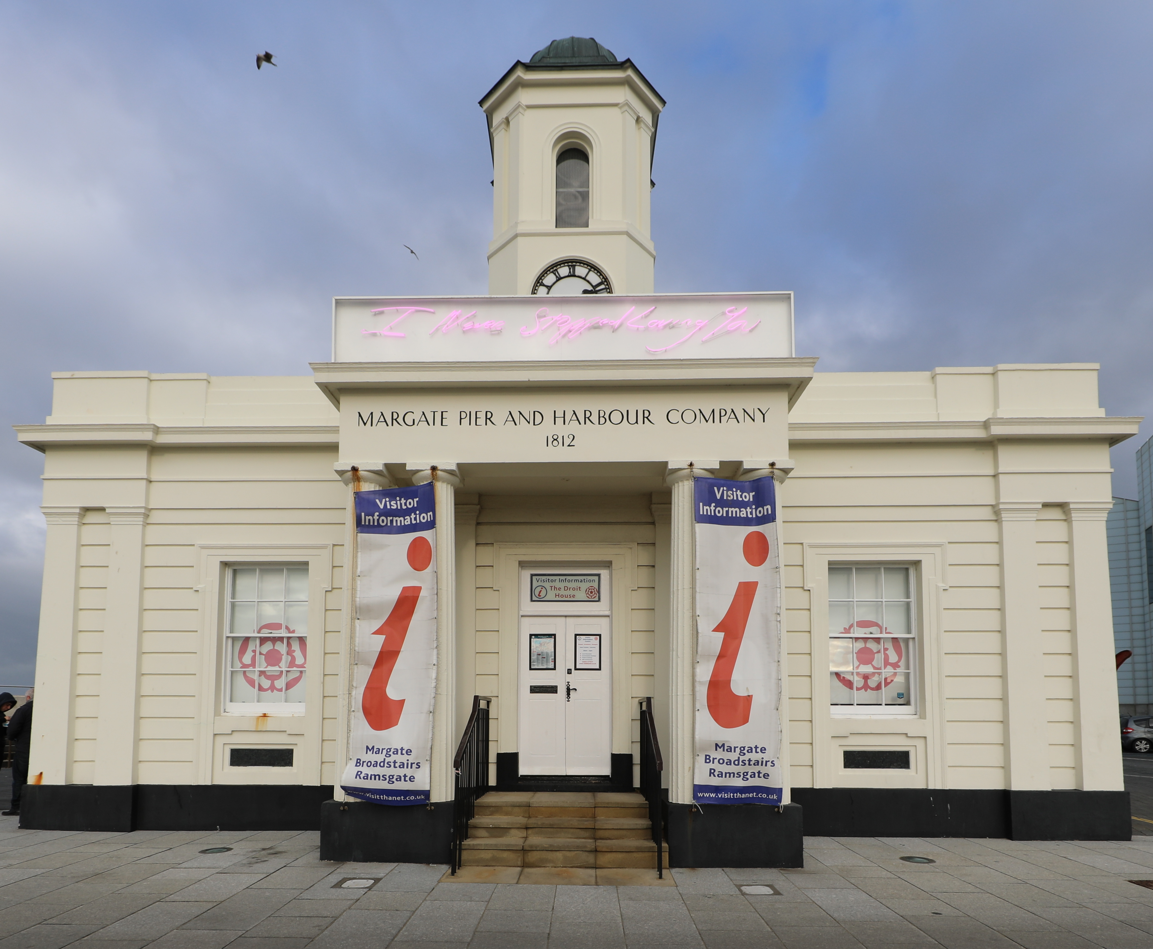 Droit House front exterior Wikidata has entry Q26499594 with data related to this item.